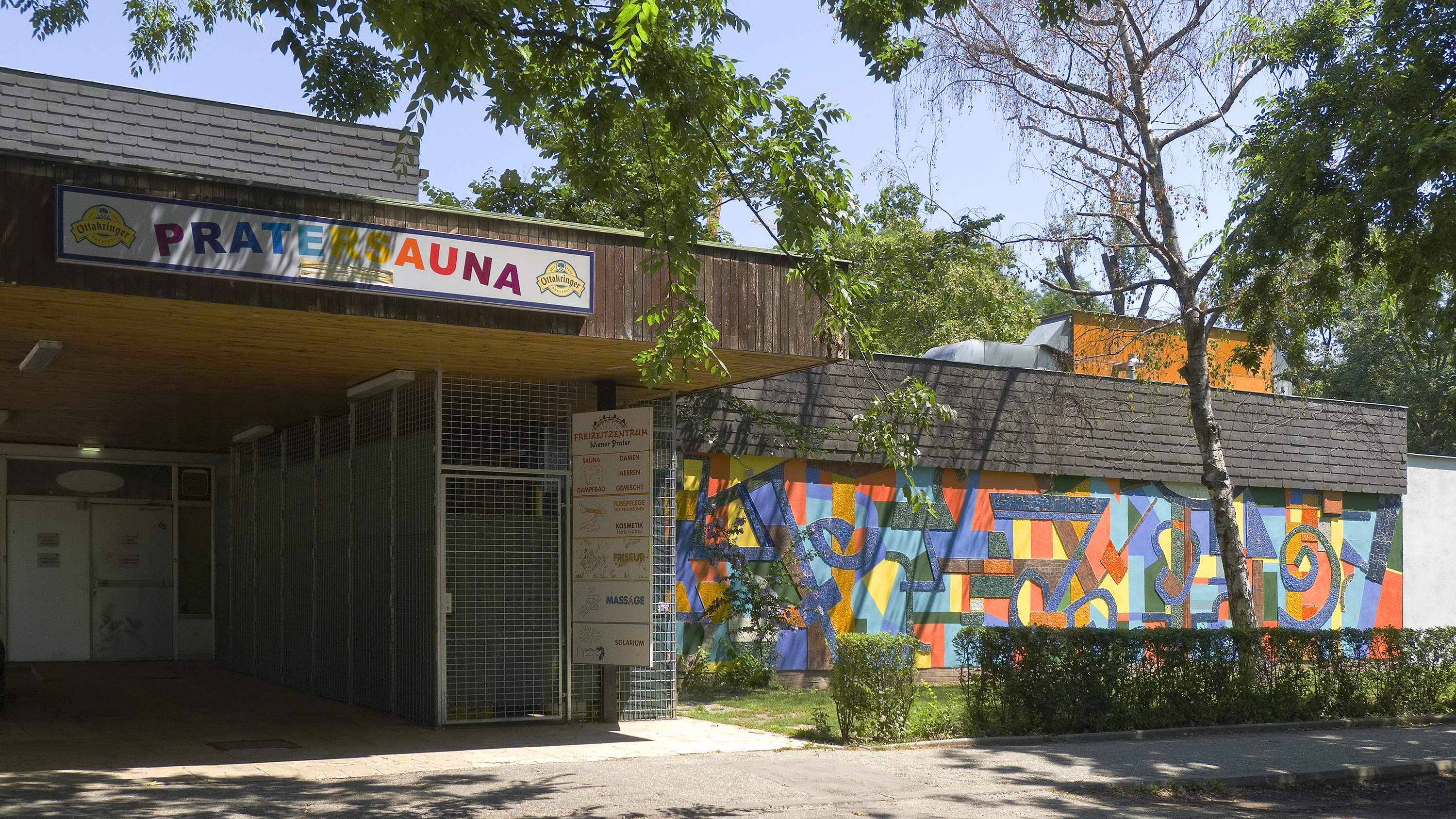 Sauna Pratersauna in Vienna 2